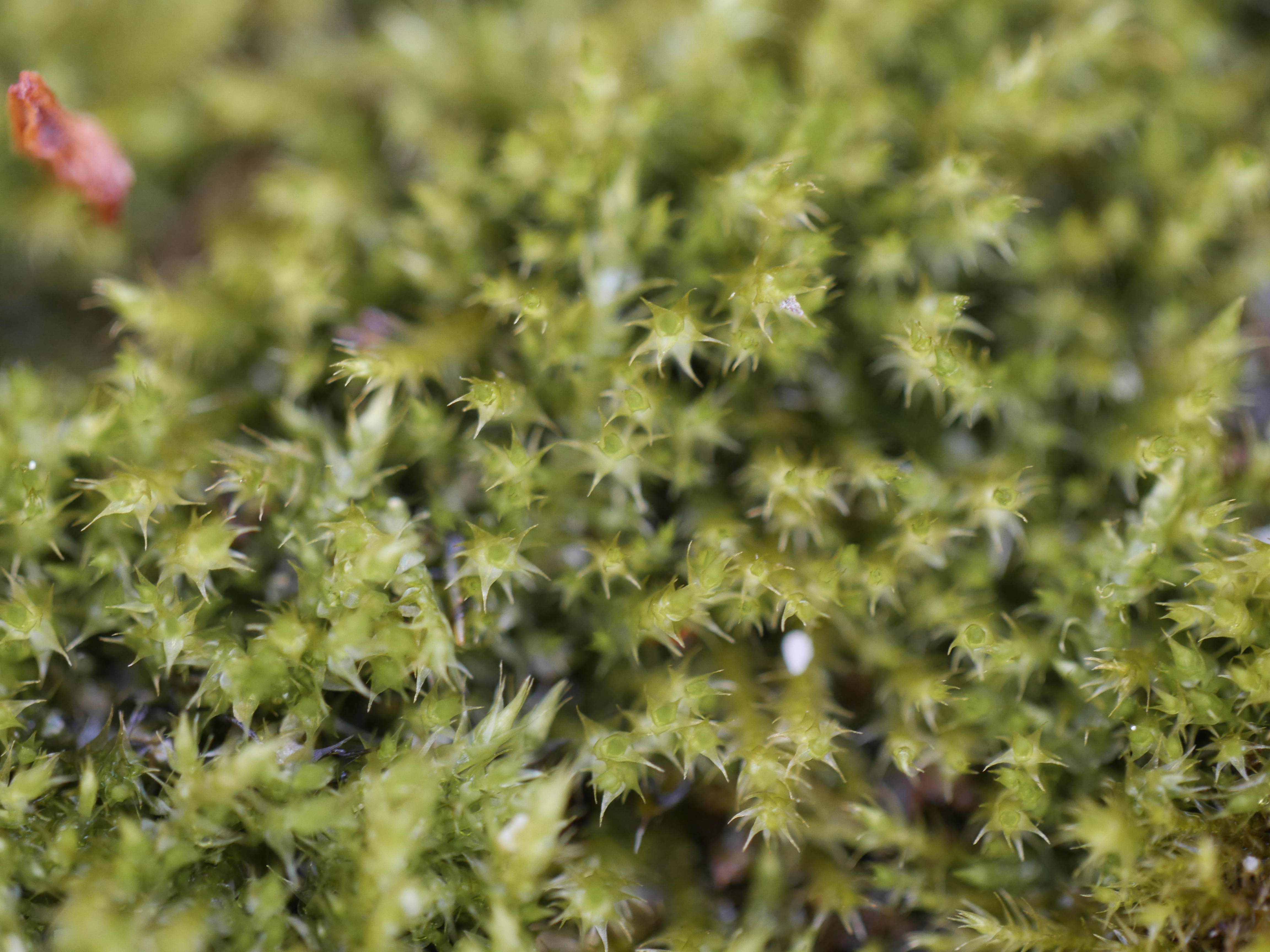 This photo was taken with Panasonic Lumix DMC-GH3 camera, thanks to Panasonic. You can see all photographs in category: Taken with Panasonic Lumix DMC-GH3.